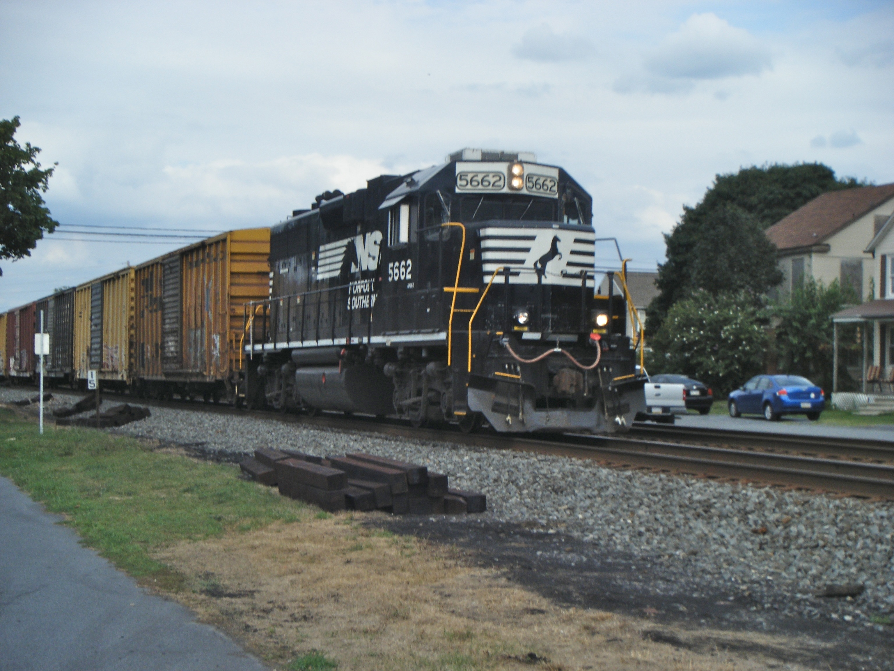 Norfolk Southern Railway EMD GP38-2 5662 leads a local freight westbound on the Reading Line through Lyons, Pennsylvania.